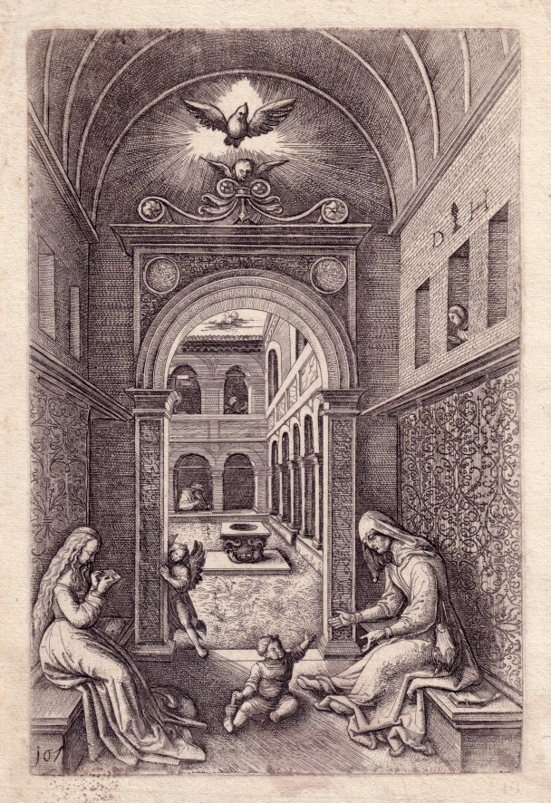 Etching “Mary and St. Anne (St. Elisabeth ?) “ from Daniel Hopfer